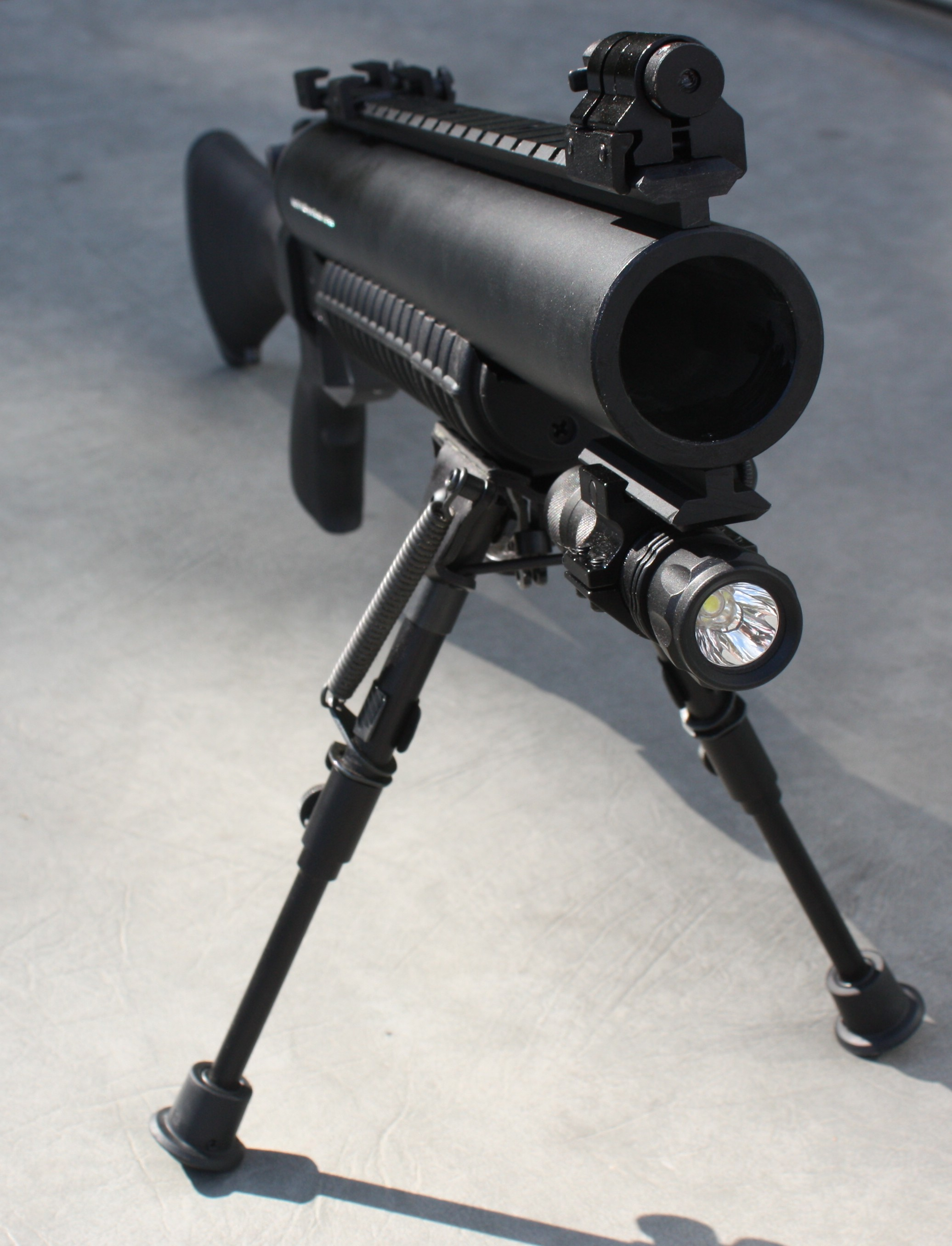 Front end view of a flare launcher made by Bates and Dittus LLC